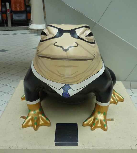 Larkin toad, Hull (10)This is the LarKin (sic) Toad, painted to resemble the poet himself, in the Princes Quay shopping centre, Hull, East Riding of Yorkshire, England..Part of the Larkin with Toads series